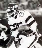 New York Jets' wide receiver Wesley Walker running with the ball during a 1981 away game.